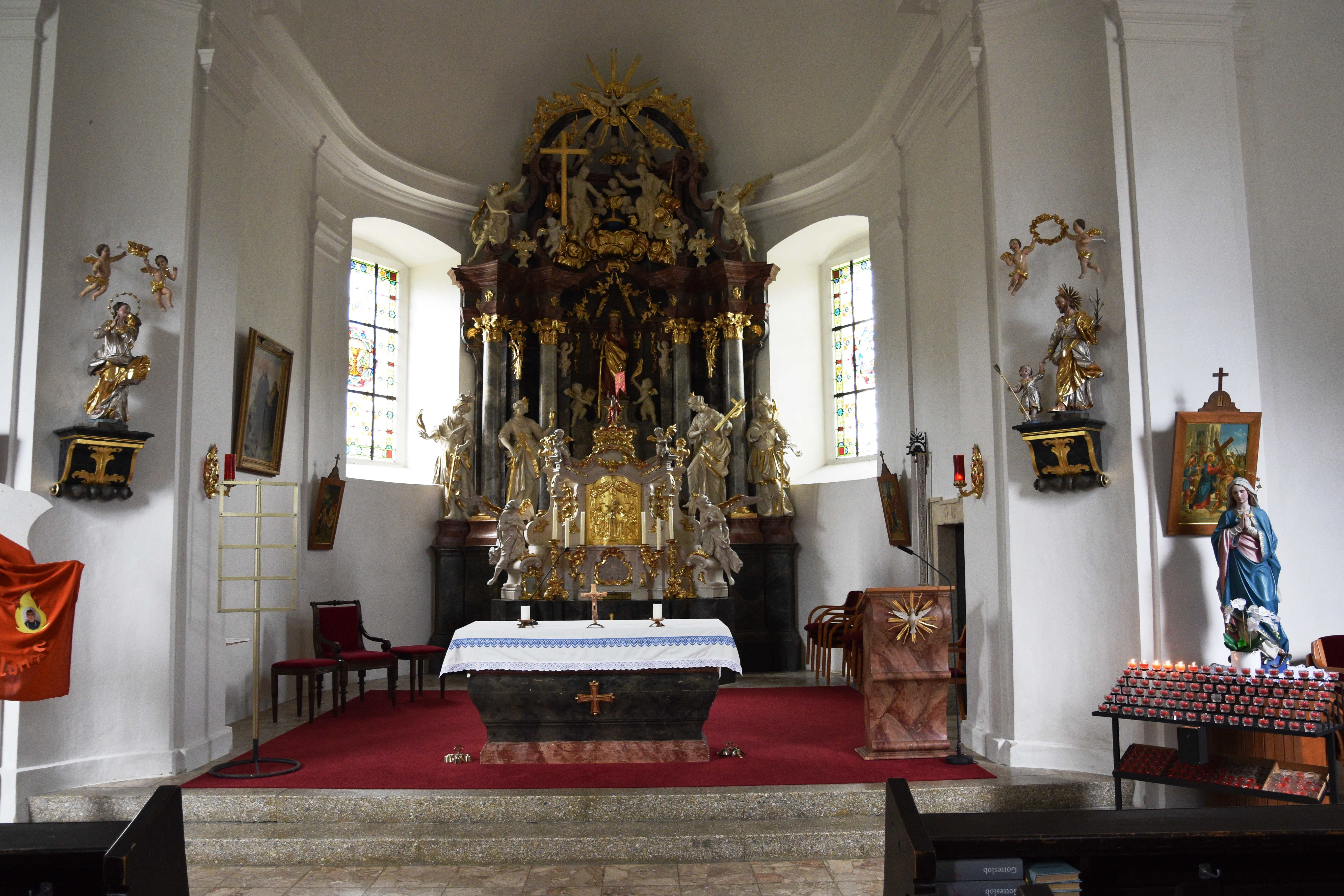 Church Pfarrkirche Sankt Kathrein am Hauenstein Interior